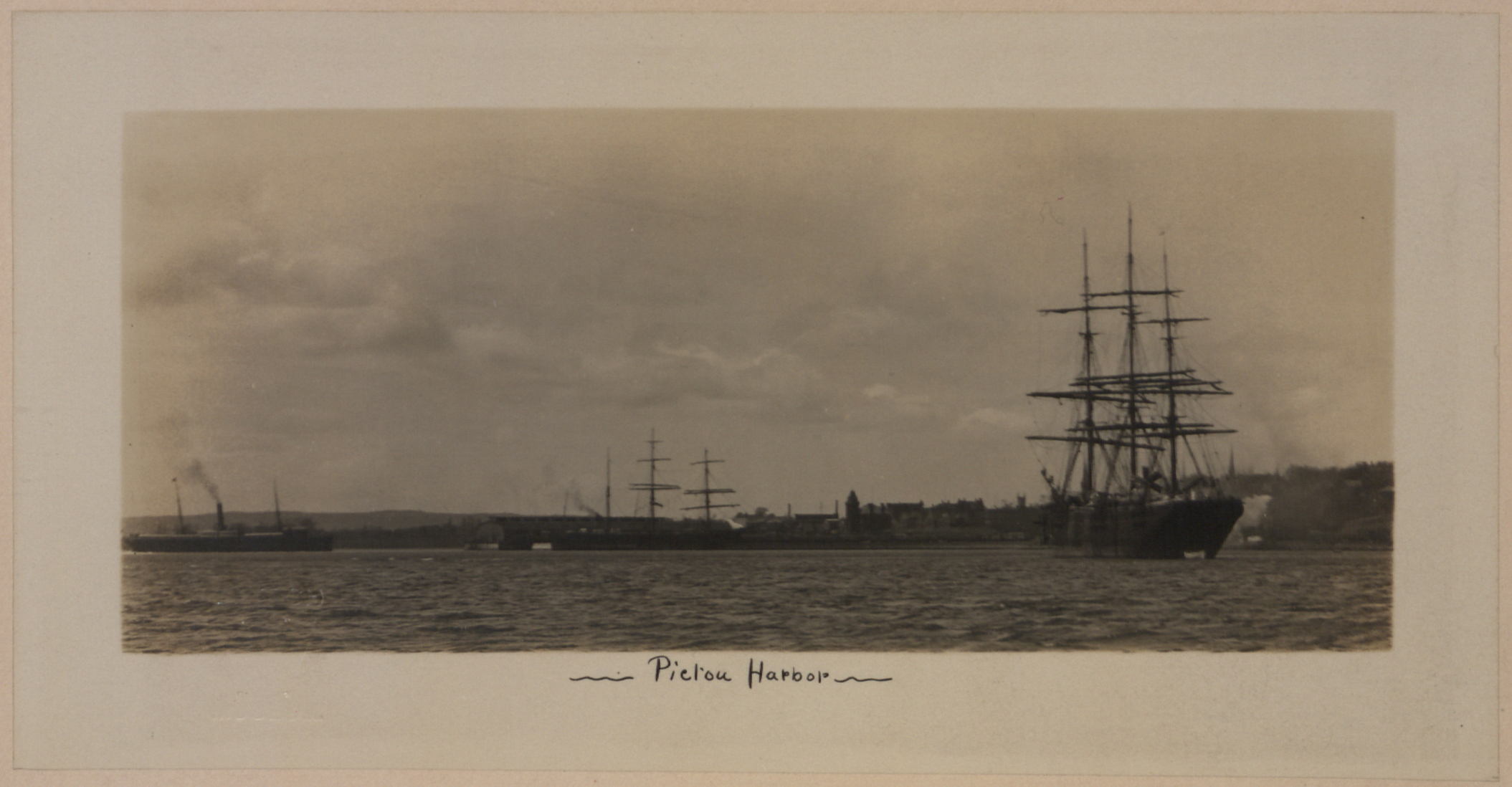 Pictou Harbor.